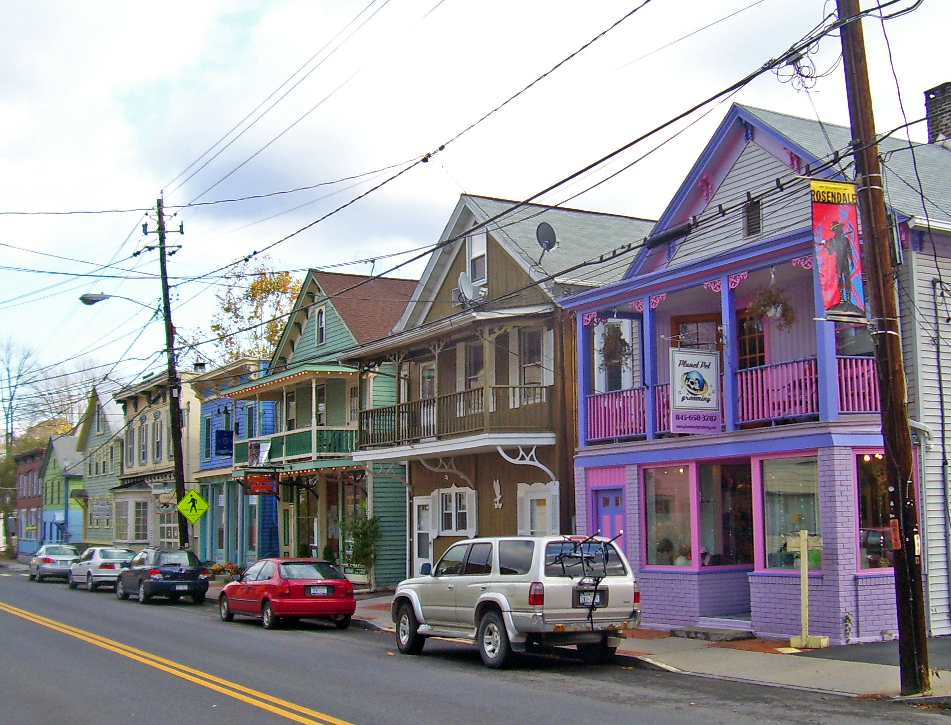 Restored historic houses and stores along NY 213 in downtown Rosendale, NY, USA